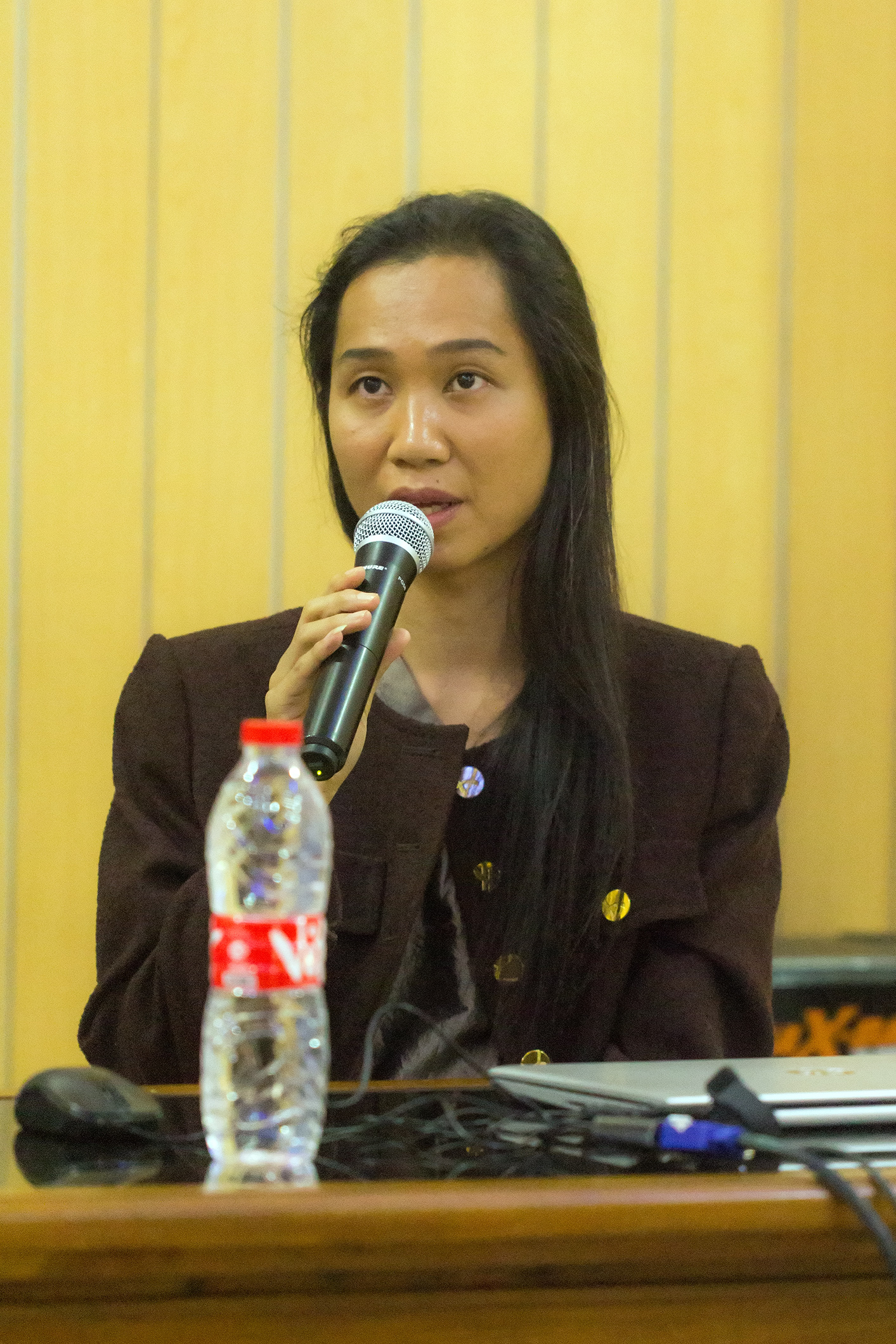 Thai director Anucha Boonyawatana at the 10th Association of Southeast Asian Cinemas Conference, Indonesian Institute of Art, Yogyakarta, 2018-07-25